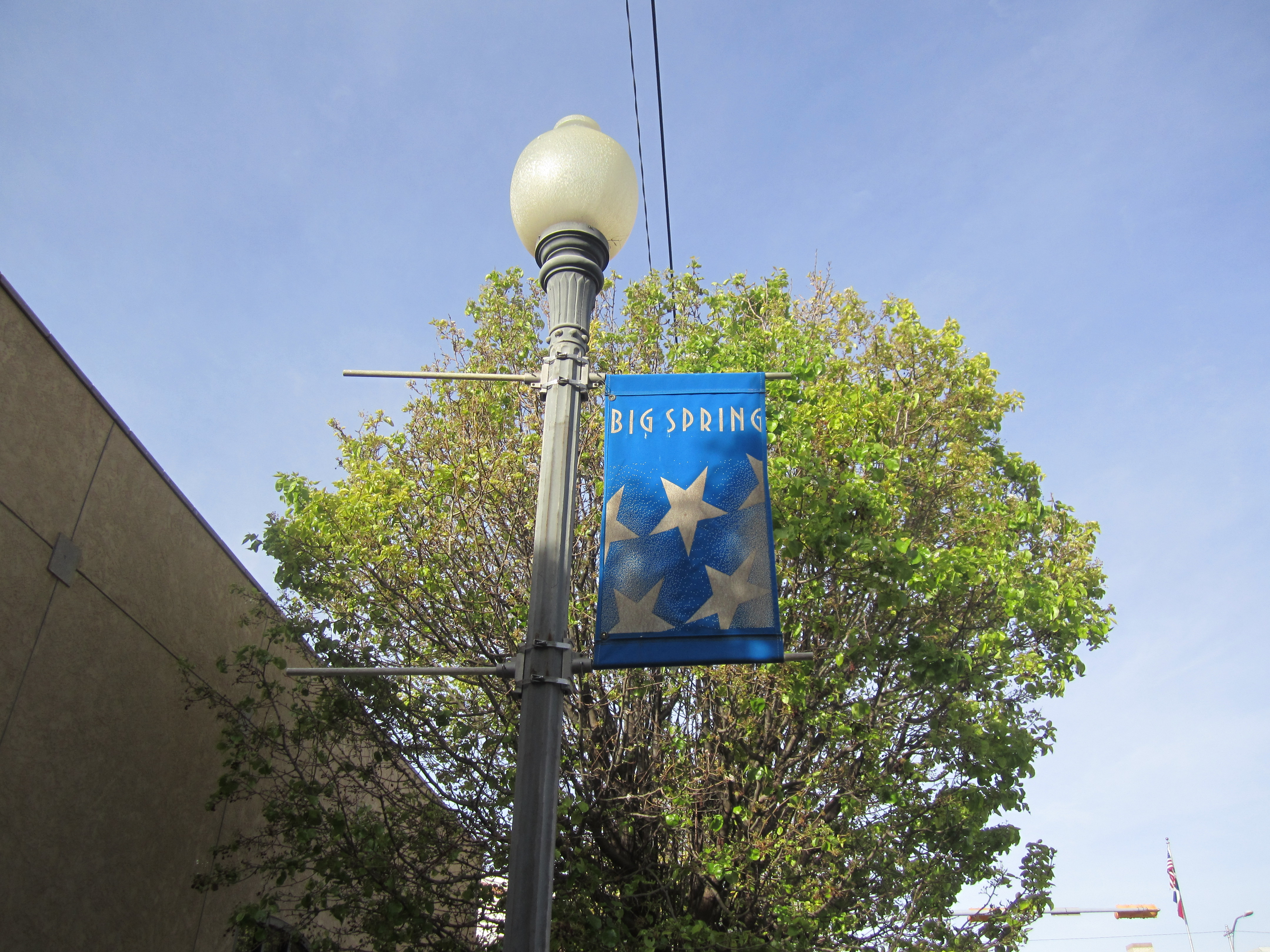 I took photo with Canon camera in Big Spring, TX.